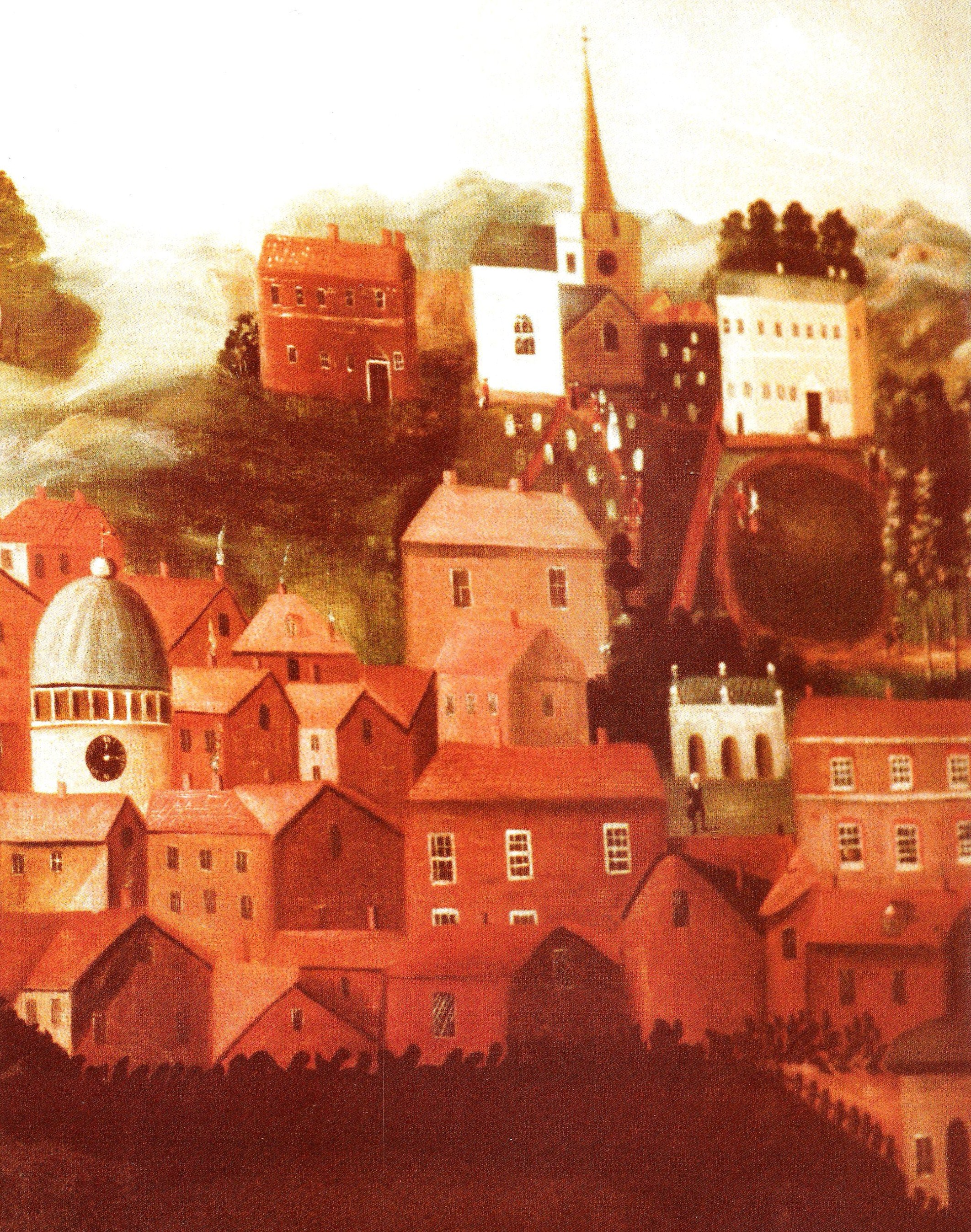 detail of A Picture of Chesham